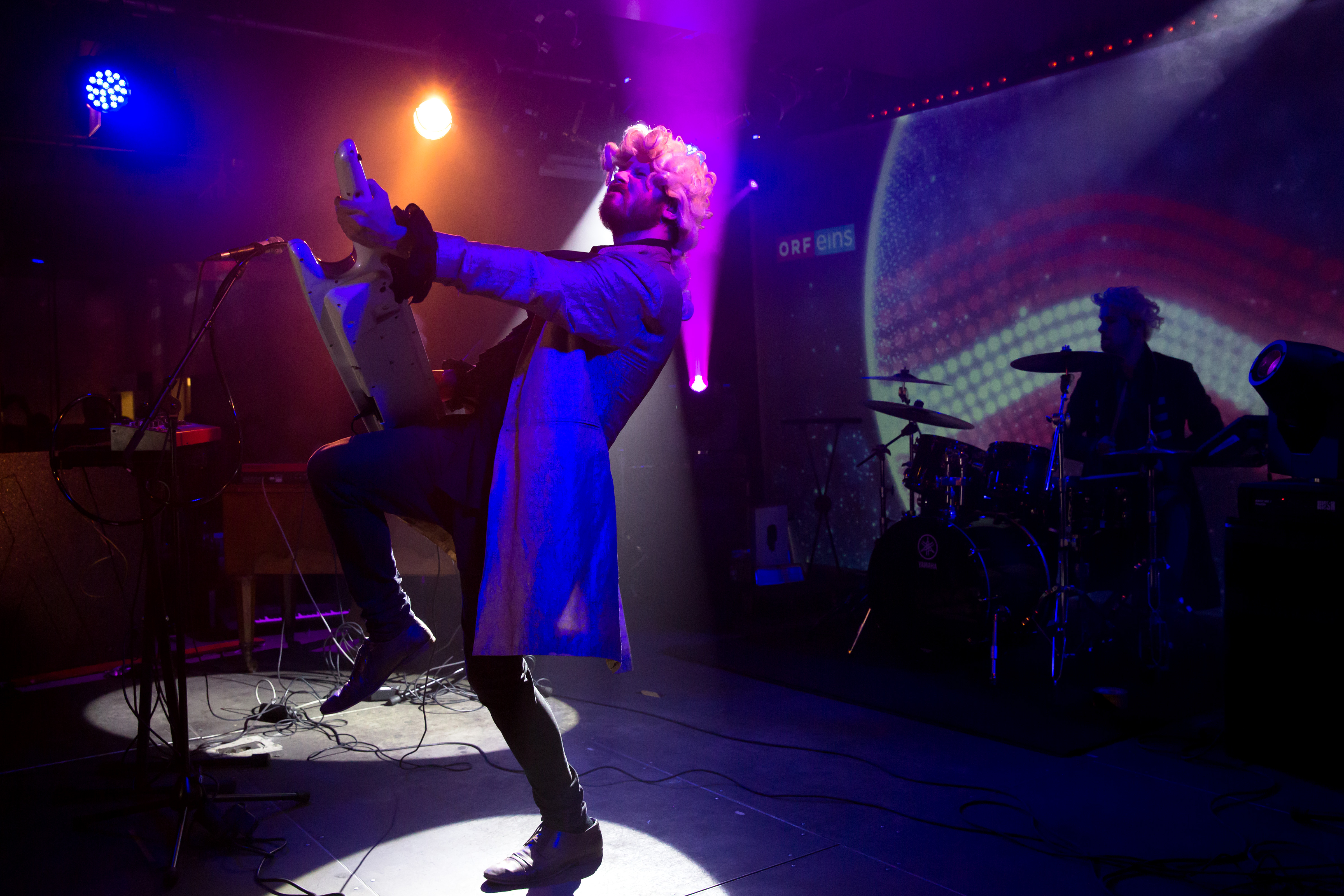 Johann Sebastian Bass at the concert of the Austrian candidates for participating at the Eurovision Song Contest 2015; Chaya Fuera, Vienna,Austria.